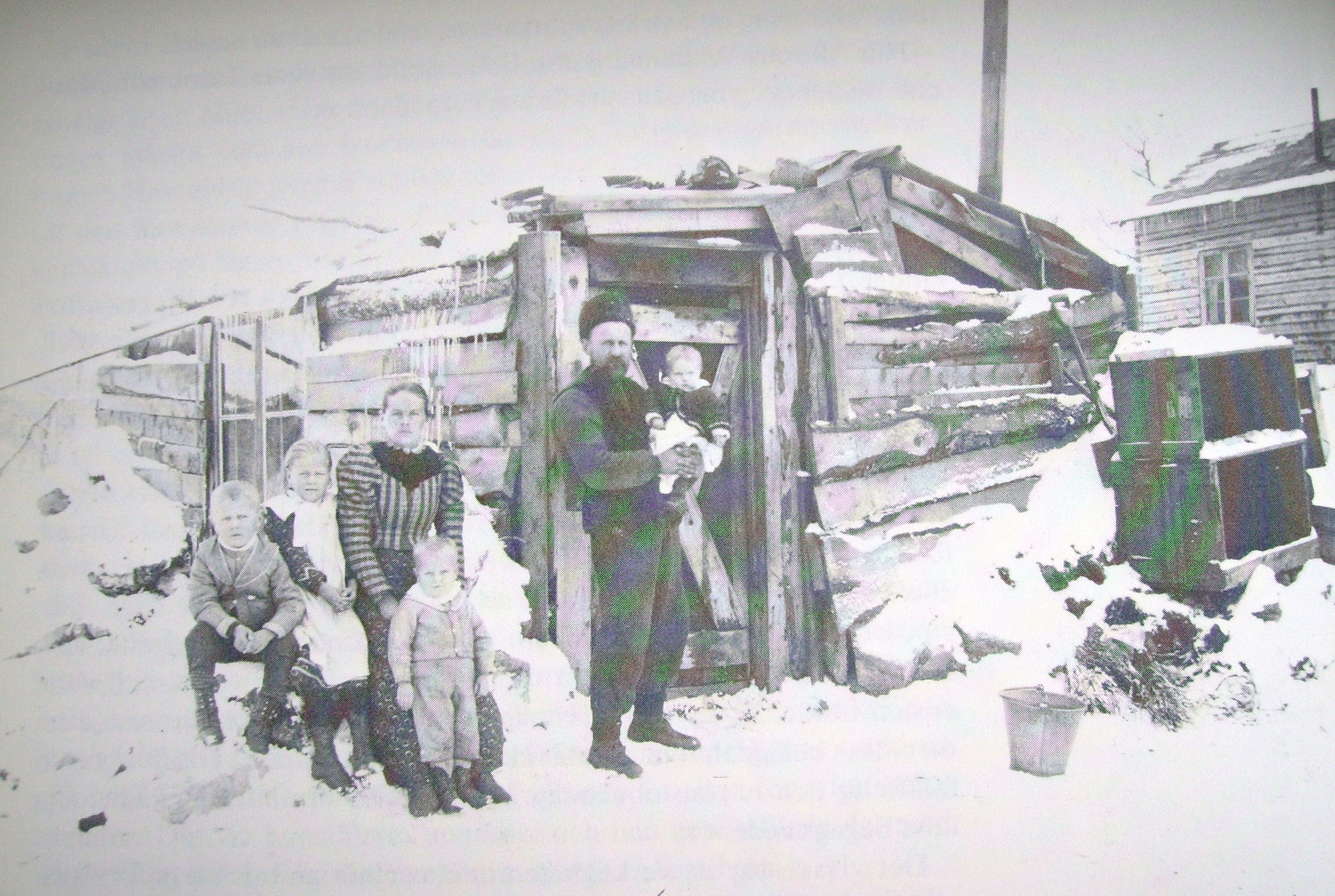 Picture of Kiruna Söderberg, born 1900 as the first native of Kiruna